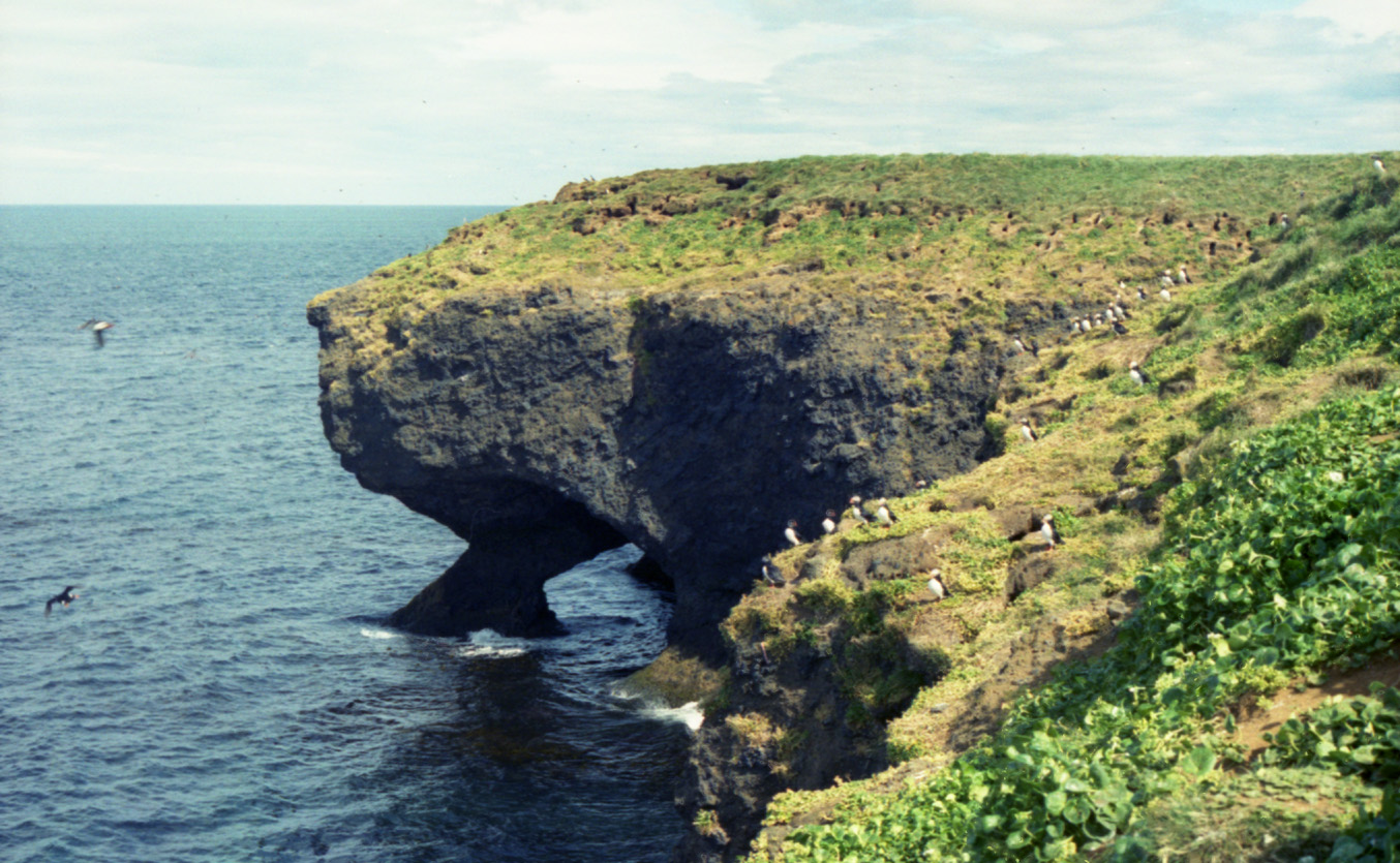 Puffins on the northernmost tip of Tjornes peninsula